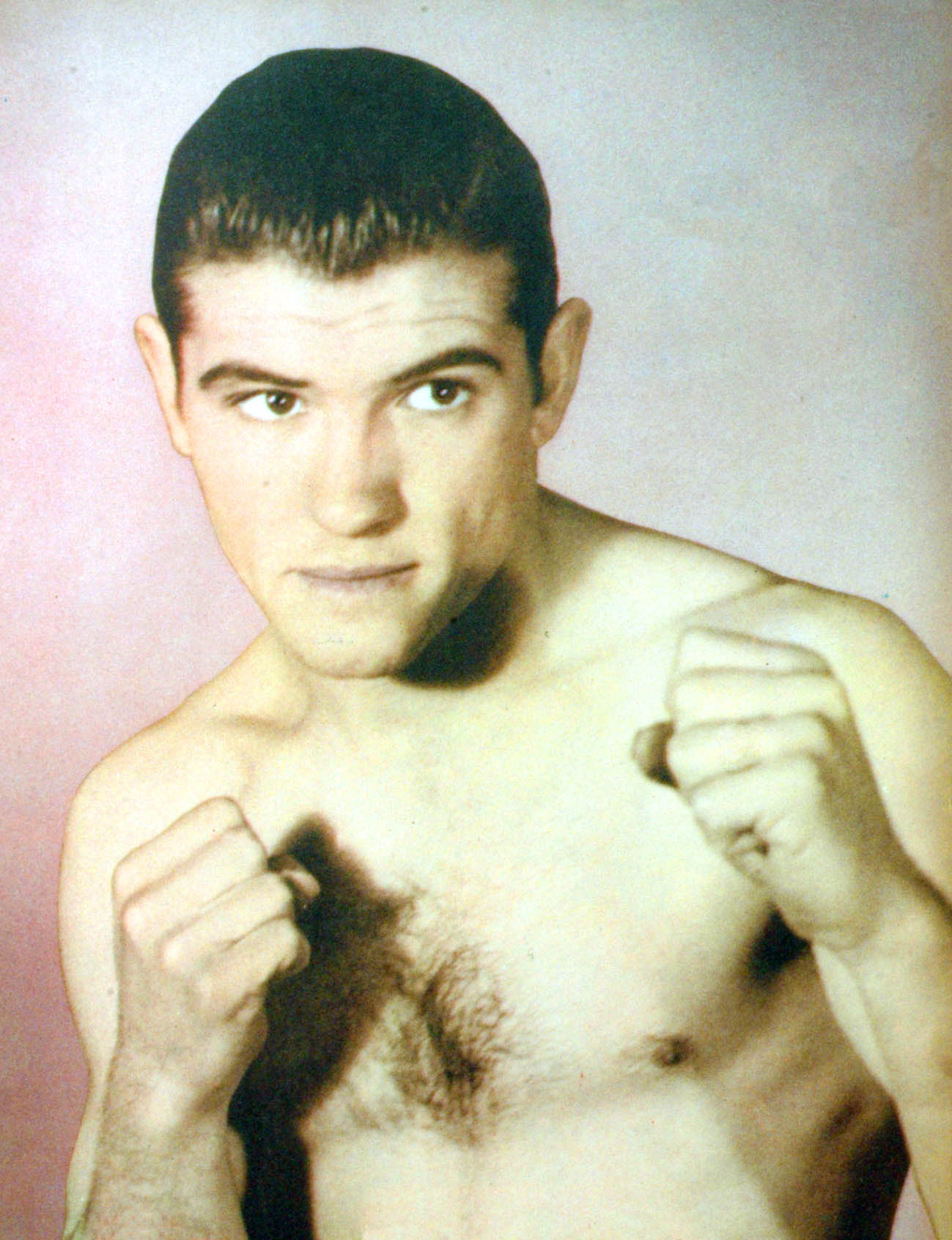 Front page picture of El Grafico review, when Pascual Perez won the gold medal at the 1948 Summer Olympics (London). Argentina.